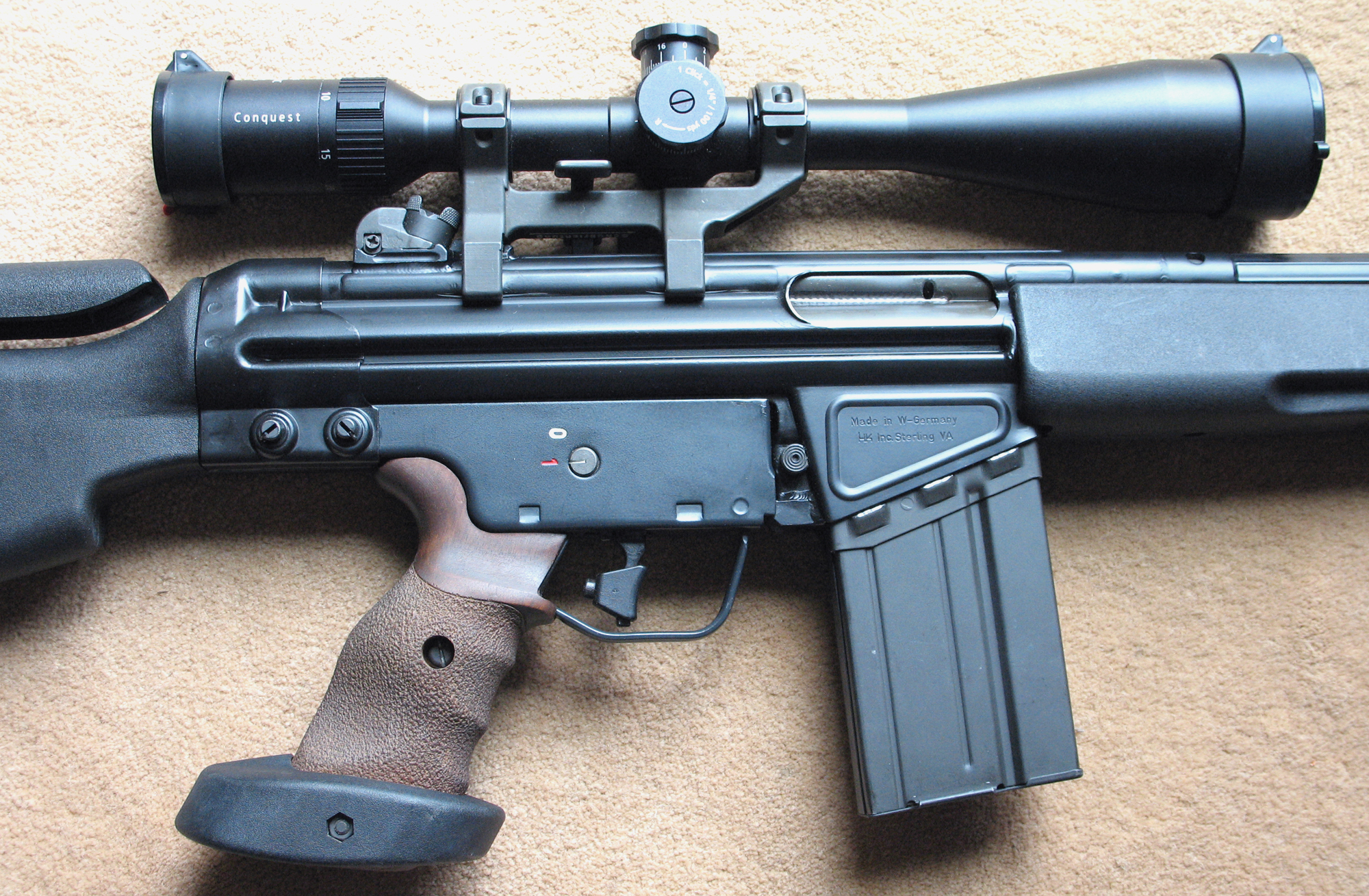 Right side of an HK SR9T Rifle